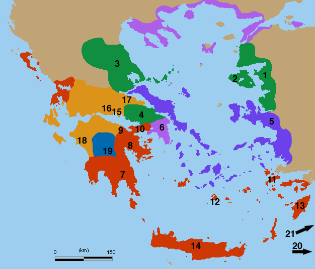 Map of ancient greek dialects, numbered for non-English wikipedias